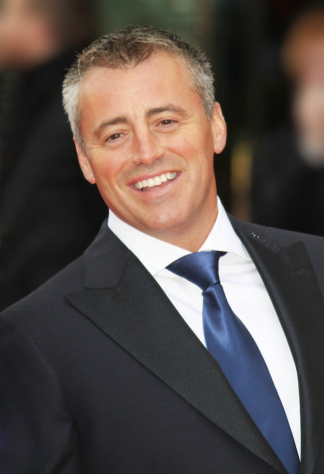 Matt LeBlanc at the 2013 Arqiva British Academy Television Awards, Royal Festival Hall London, UK.